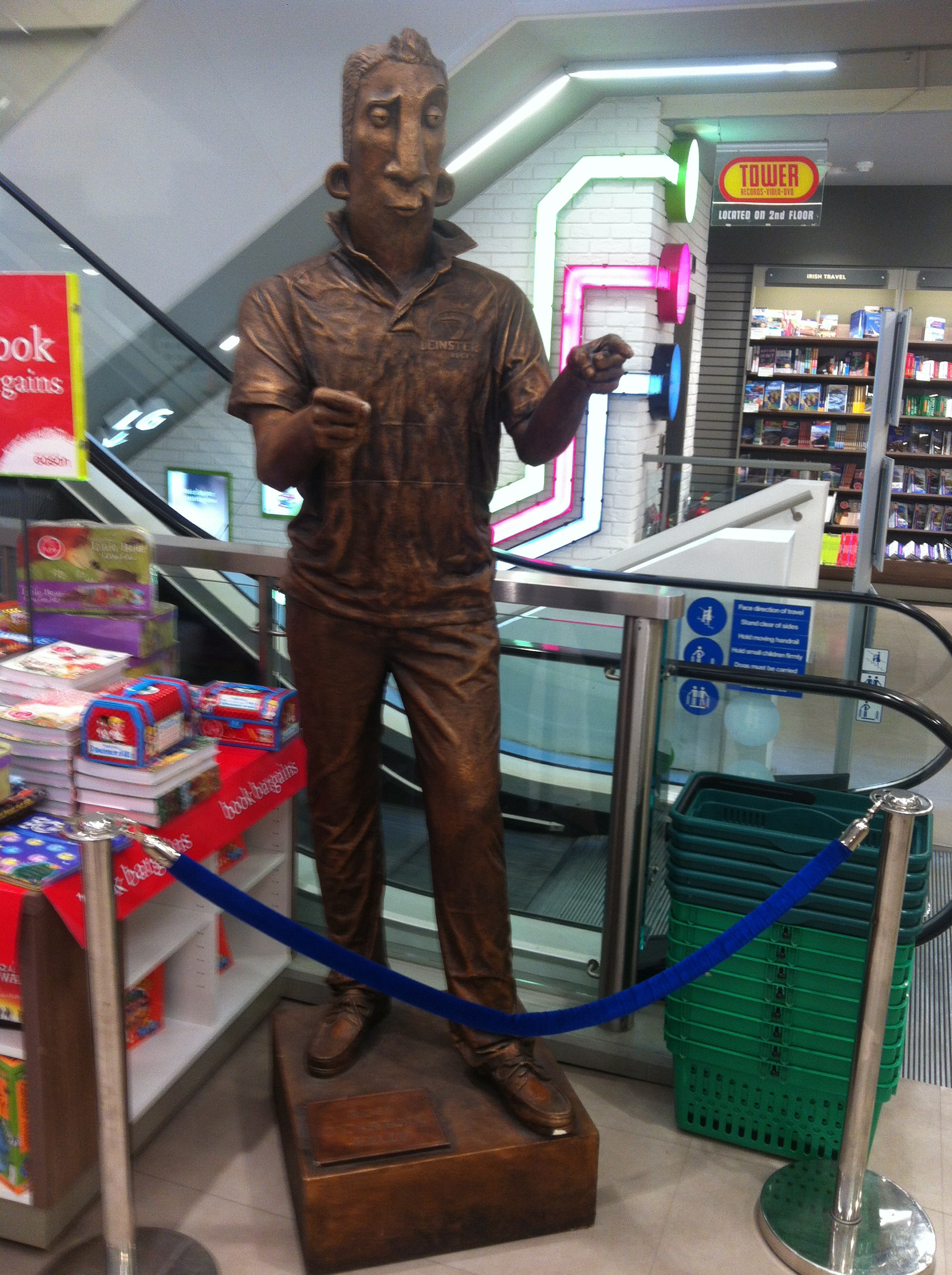 This is a photograph of the Ross O'Carroll Kelly statue in Dublin